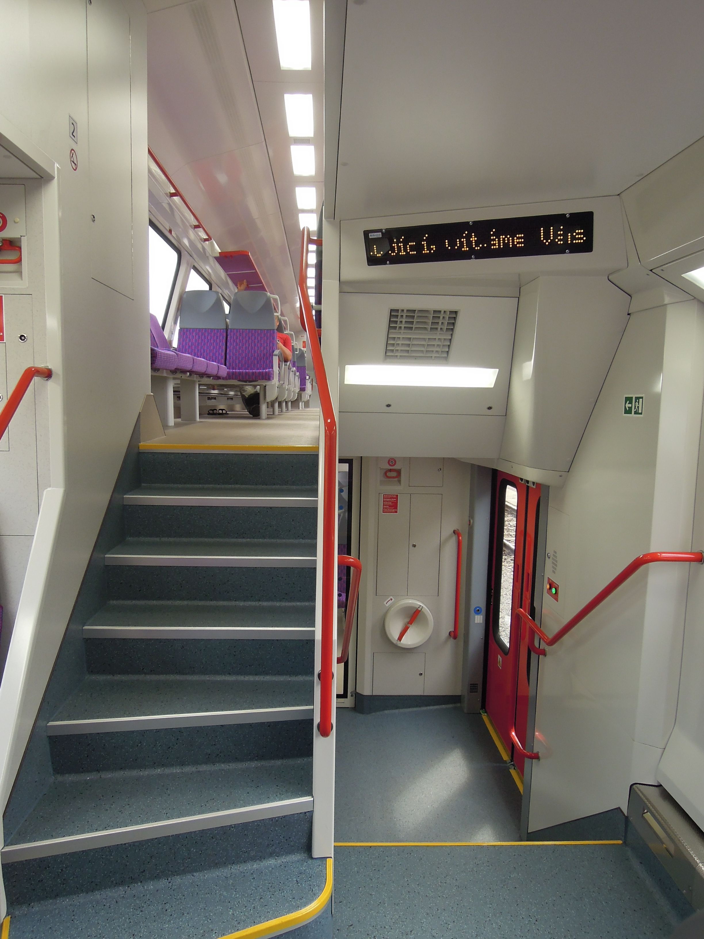 Electric multiple unit class 471 of České dráhy at the Czech Raildays 2012 trade fair in Ostrava, Czech Republic